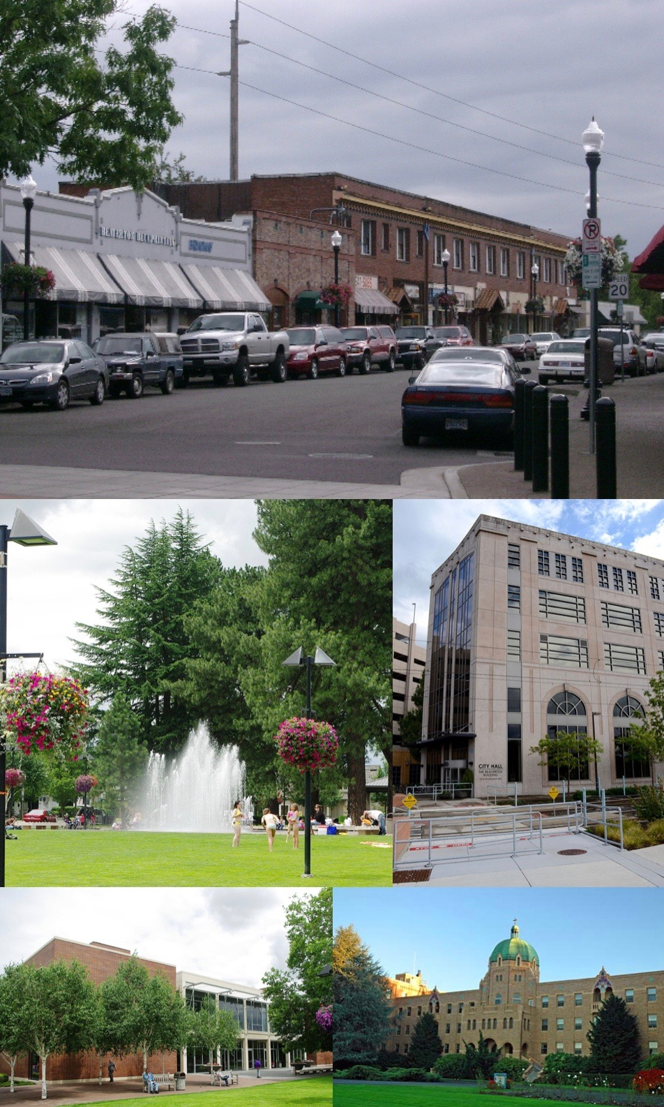 Photo montage of Beaverton, Oregon.